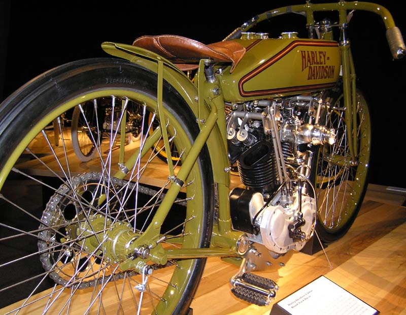 1923 Harley-Davidson Model 8-Valve Board Track Racer - The Art of the Motorcycle - Memphis. 61 cu-in, bore x stroke 3-5/16 x 3-1/2 in. Power: unknown. Top speed:109 mph (175 km/h). Collection of Daniel K. Statenkov.